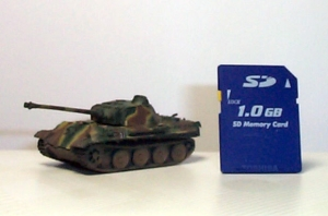 Panther_tank_(WORLD_TANK_MUSEUM)Models